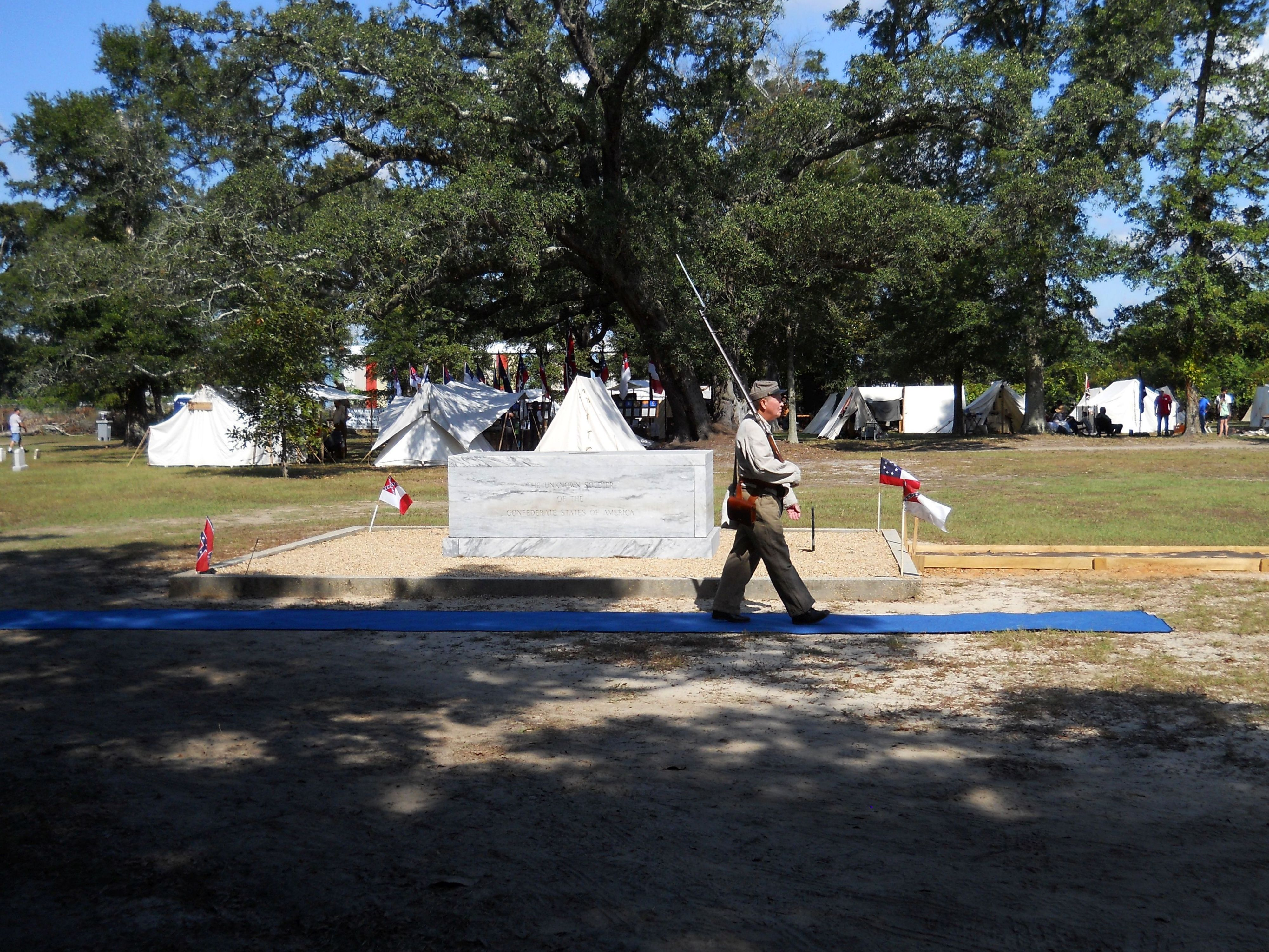 Honor guard during Fall Muster at Tomb of the Unknown Confederate Soldier on the grounds of Beauvoir in Biloxi, Harrison County, Mississippi, USA